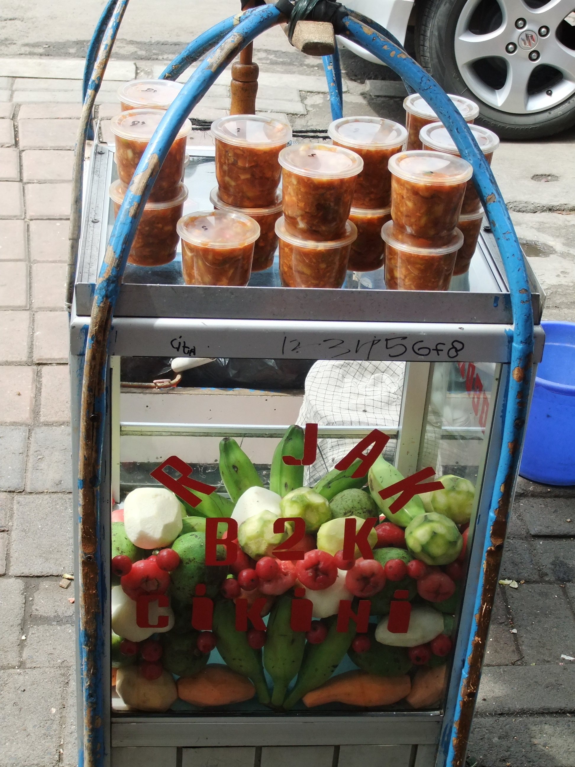 Rujak bebek is rojak crushed in wooden mortar, unriped banana (Indonesian: pisang batu, Musa brachycarpa Back) added as an accent.